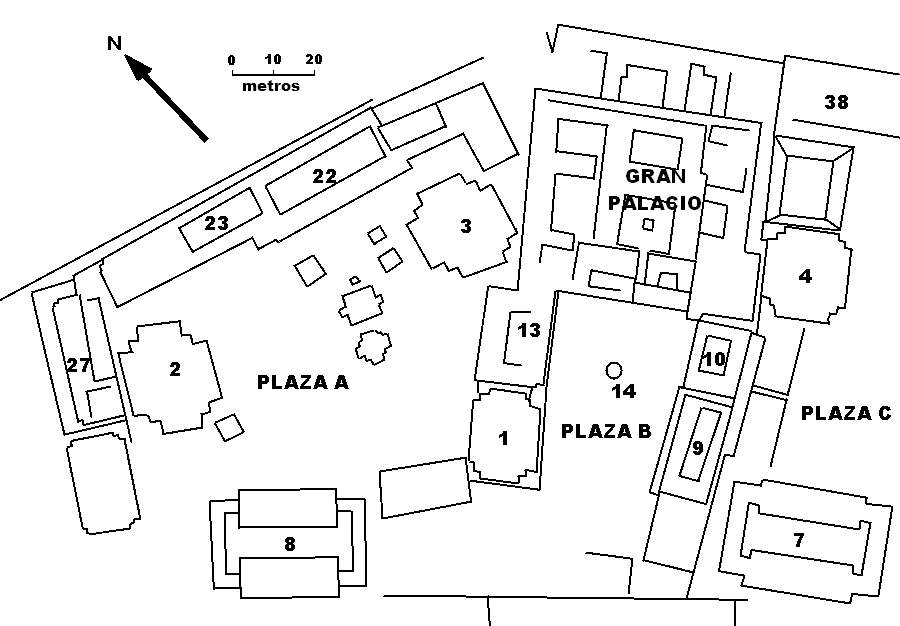 Map of the site core of the Maya ruins of Iximche. After Jorge R. Guillemin 1965, Iximché: Capital del Antiguo Reino Cakchikel, p.25.